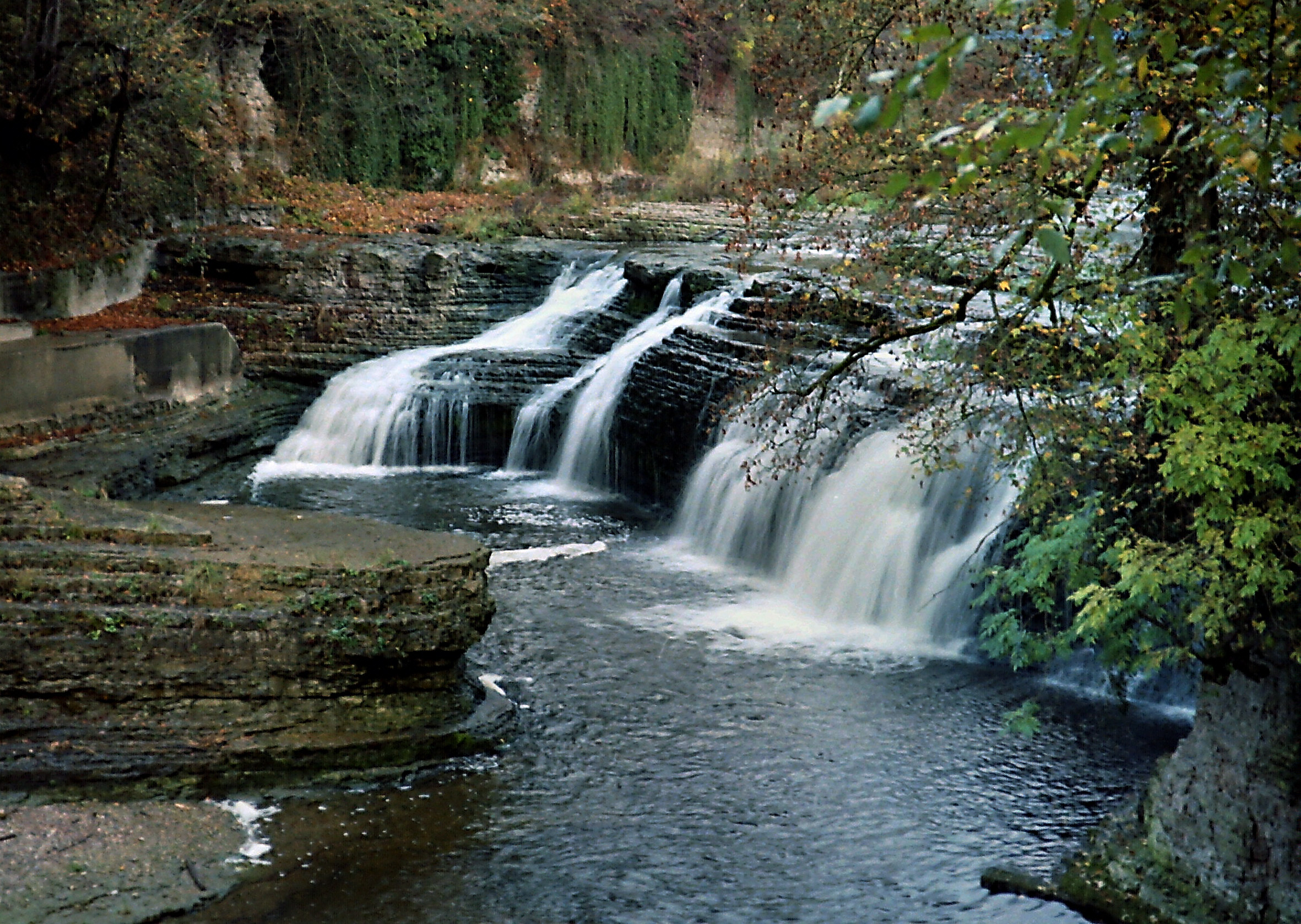 Waterfall of river Wutach near Lauchringen, southwestern Germany